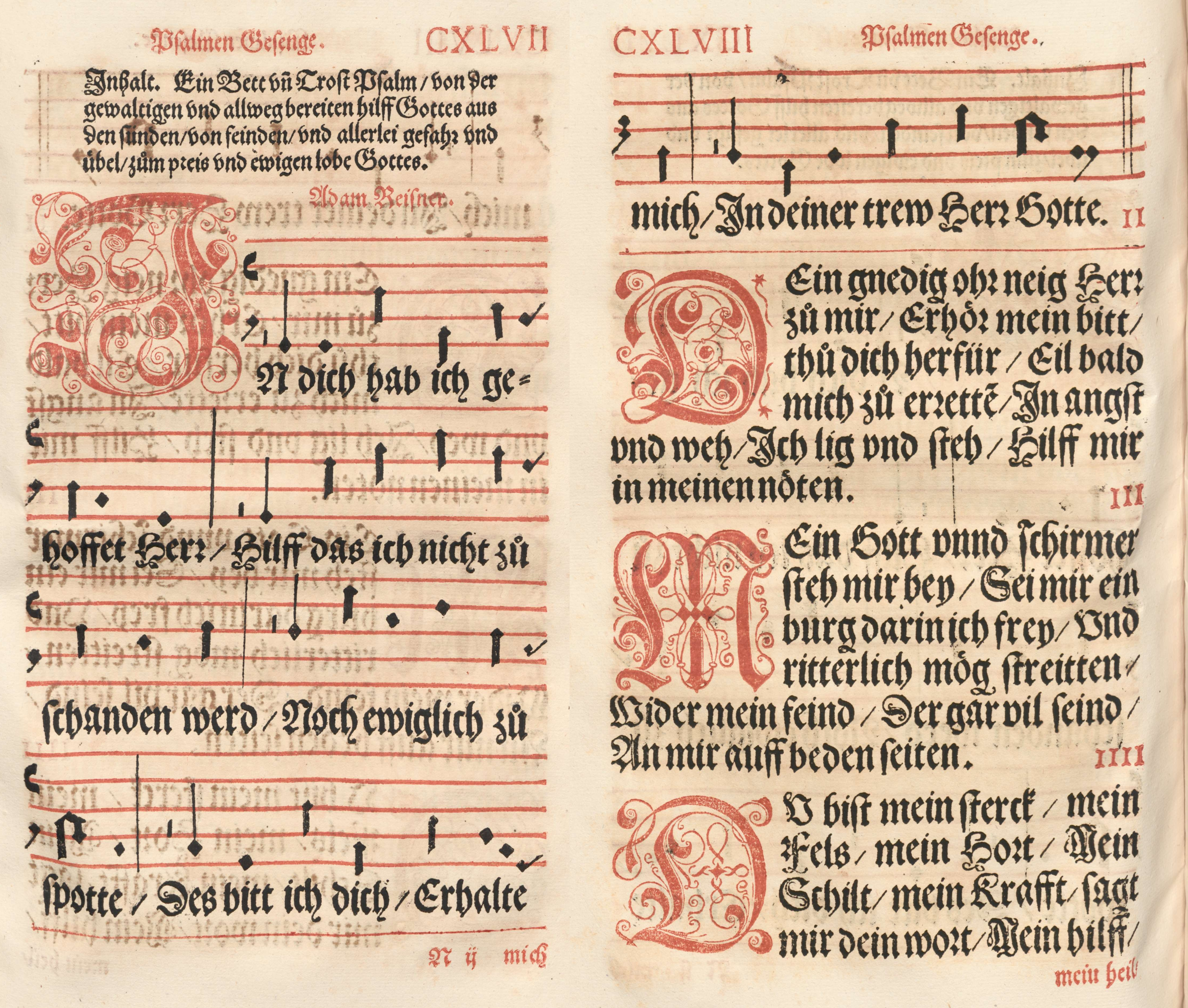 Text and melody of the hymn In dich hab ich gehoffet, Herr, from pages 271 and 272 of Das Gros Kirchen Gesangbuch, Strasburg